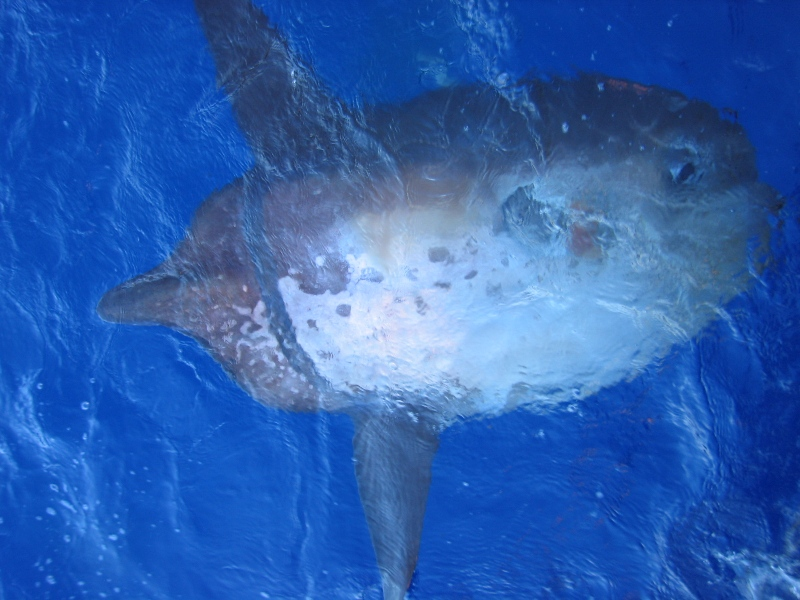 Sharptail mola (Masturus lanceolatus)